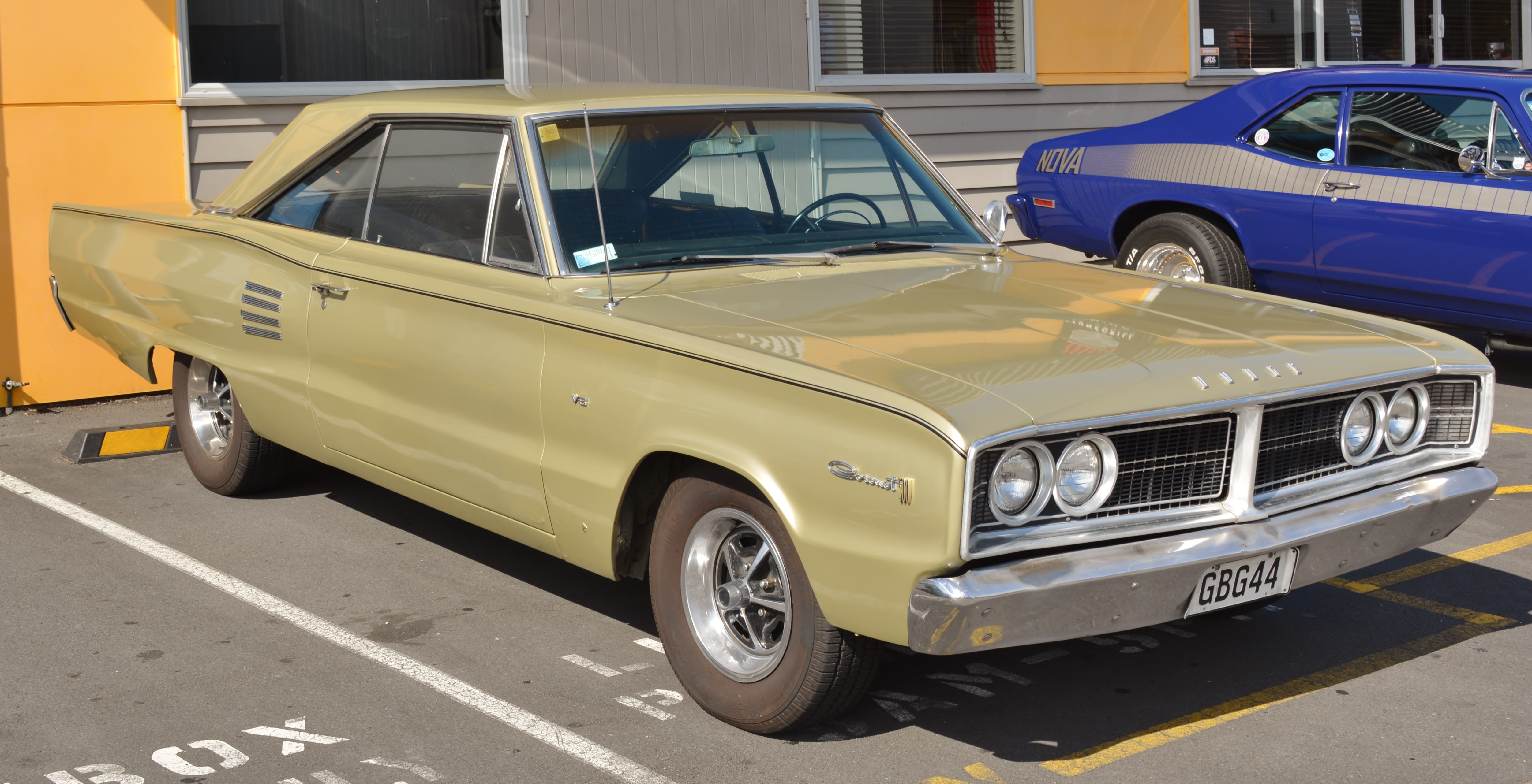 1966 Dodge Coronet